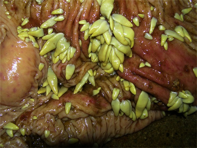 Prepatent period of invasion (horse number 13). Lance-shaped-like strobila of immature Anoplocephala perfoliata